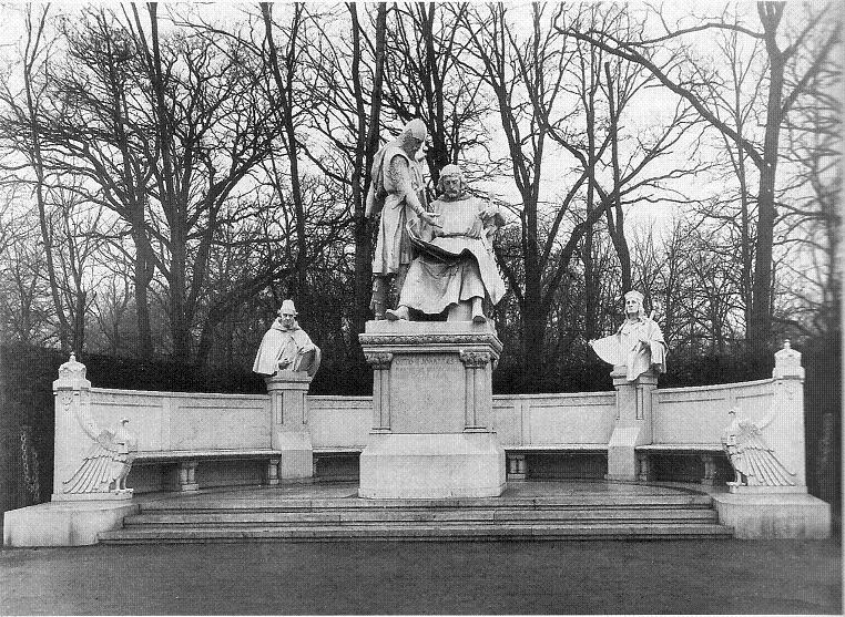 The former Siegesallee in Berlin with the double statue commemorating the corulers of Brandenburg, Margrave John I (1213–1266) and Margrave Otto III (ca. 1215–1267), sons of Albert II and grandchildren of Otto II. The bust on the left commemorates Provost Simeon of Cölln, that on the right Marsilius de Berlin, the first documented "Schulze" (mayor) and judge of Berlin. Sculptor: Max Baumbach. The sculpture was unveiled on 22 March 1900. Spread across the knees of John I is the document granting town charters to Berlin and Cölln. The younger Otto III stands beside him, pointing to the charter with one arm while the other rests on a hunting spike. The youthful city founders are portrayed here as mature men, because in the view of contemporaries the significance of founding the later metropolis would not have been adequately manifested as an act of two youngsters.